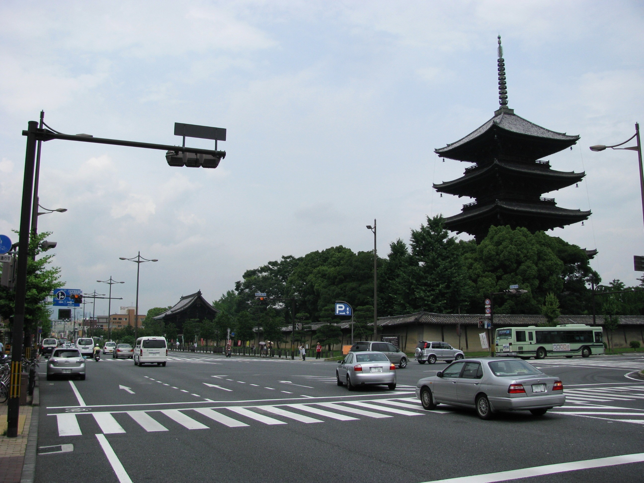 The Japan National Route 1. This place is front of the Tō-ji in Minami, Kyoto, Kyoto Prefecture, Japan.